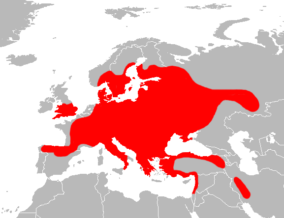 Range map of Apodemus flavicollis.